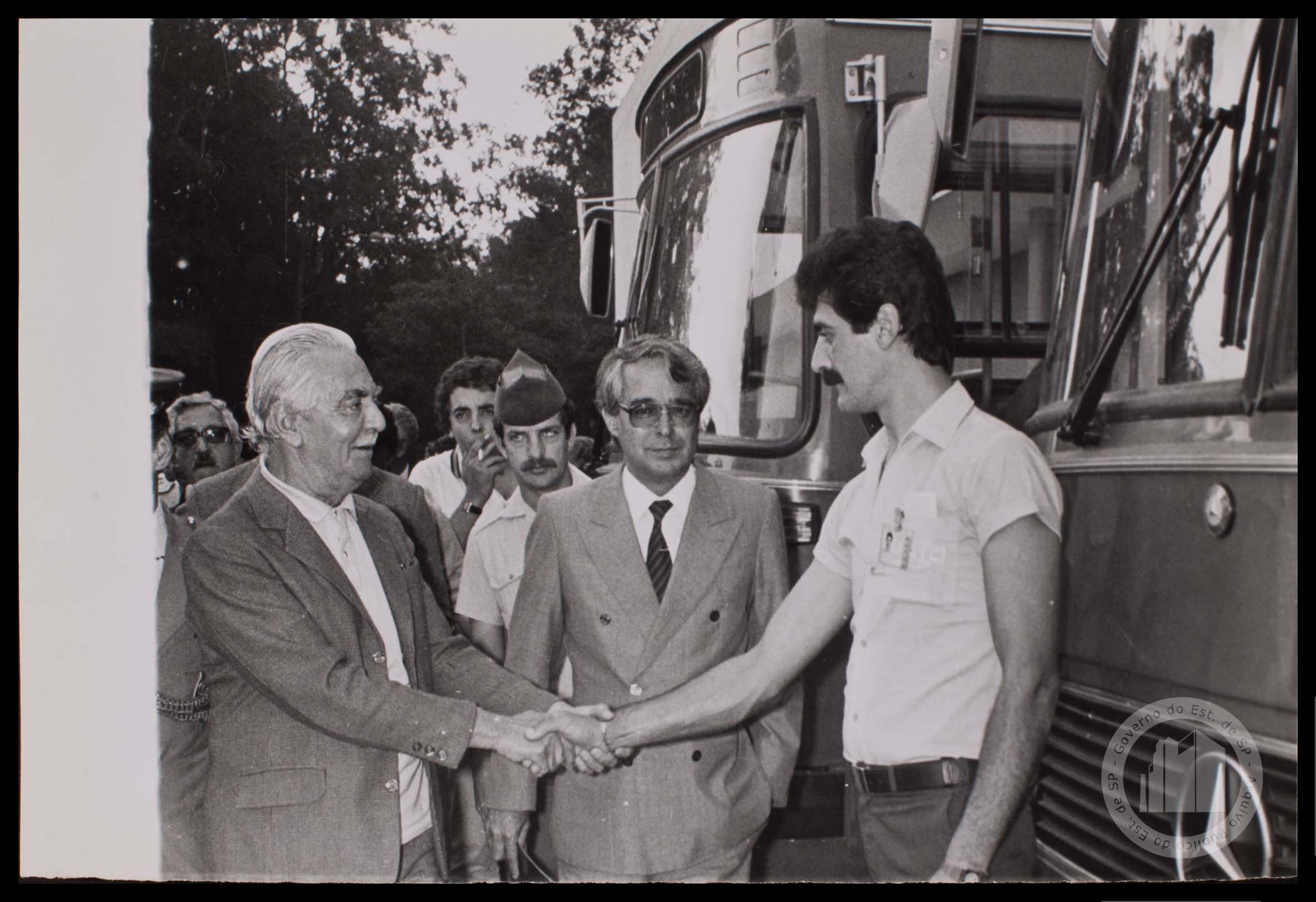 O prefeito Jânio Quadros cumprimenta motorista durante a entrega de 25 ônibus para a CMTC. Imagem sob a guarda do Arquivo Público do Estado de Sâo Paulo, código BR SP APESP MOV ICO AMP 029 058.